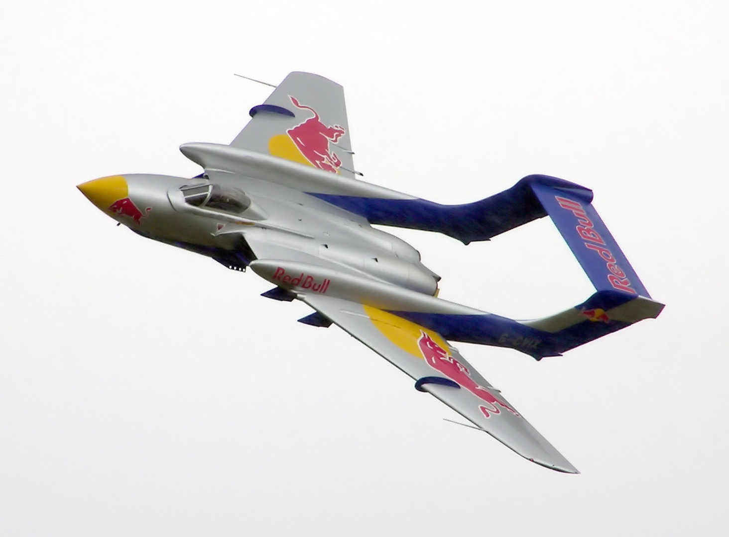 de Havilland dH-110 Sea Vixen D3, formerly of the Royal Navy as XP924, now on the UK Civil Register as G-CVIX, is maintained by De Havilland Aviation Ltd. at Bournemouth Airport, Dorset, England. The aircraft is seen here in its former Red Bull advertising markings, although it has now been repainted in its former Royal Navy Fleet Air Arm markings. XP924 entered service with the Royal Navy in 1964 as an FAW.2 model. It ended its flying in 1991 as a trainer for teaching pilots to fly aircraft by remote control from the ground (for use as missile targets). (Note: the slightly unreal look of this pic arises from the white cloud background. This is not a model nor have I cut it out and put it on a white background) Photographed by Adrian Pingstone in June 2004 and released to the public domain.